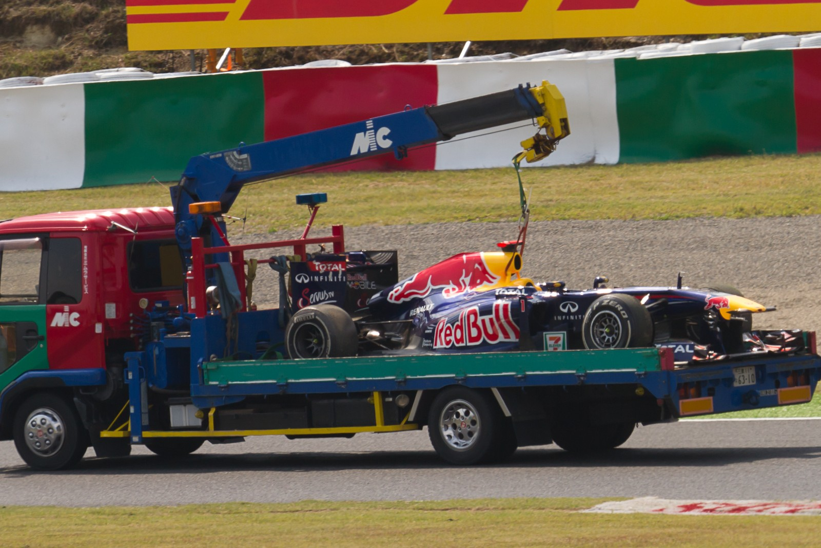 Formula One 2011 Rd.15 Japanese GP: Sebastian Vettel's Red Bull) RB7.